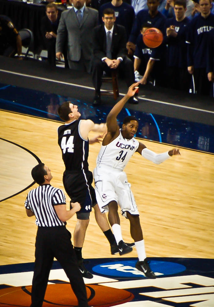 Butler's Andrew Smith and Connecticut's Alex Oriakhi battle for the opening tip at the 2011 NCAA Championship game on April 4, 2011. Brad Stevens watches in the background.